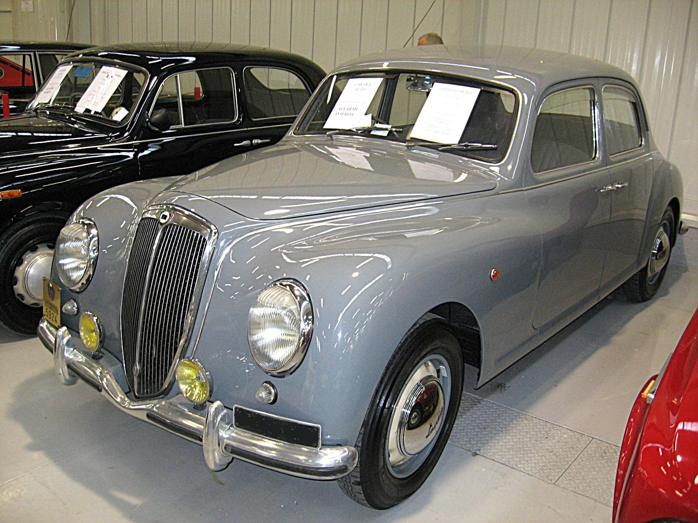 Subject:Lancia Aurelia B10 (B10=Sedan version) Author:Luc106 Date:March 15th, 2007 Event:Old Timer Show 2008 Place/Country: Forlì, Italy I release all rights in the public domain.